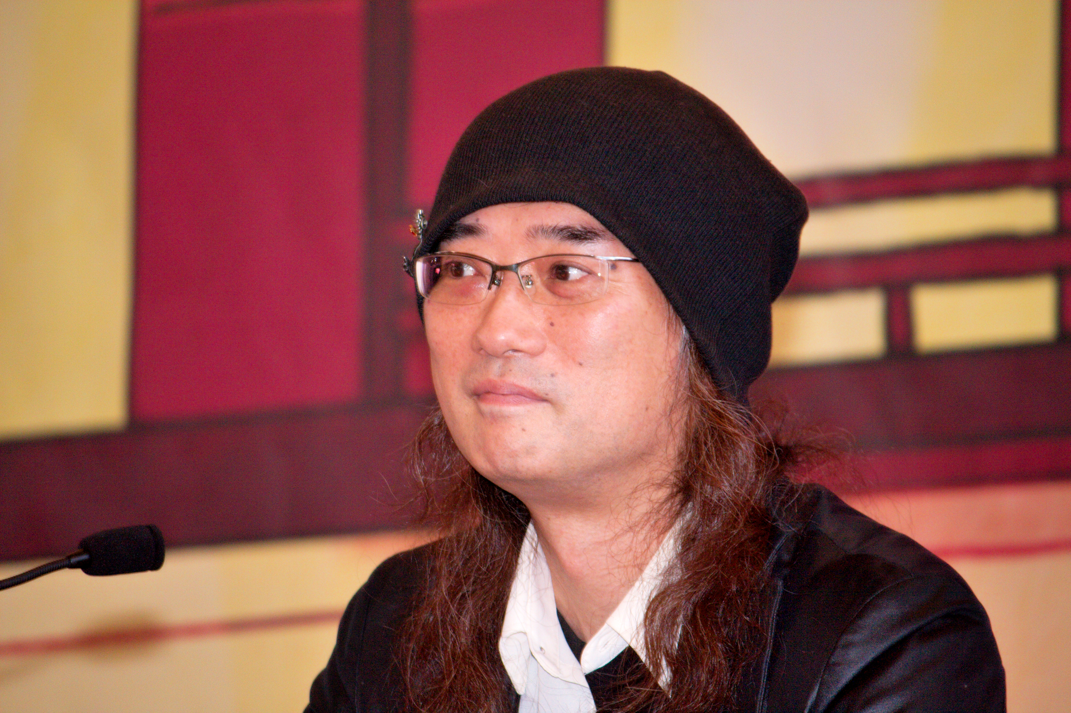 Conference with Oh! great and Yutaka Izubuchi at Japan Expo 2008 (Paris, France).